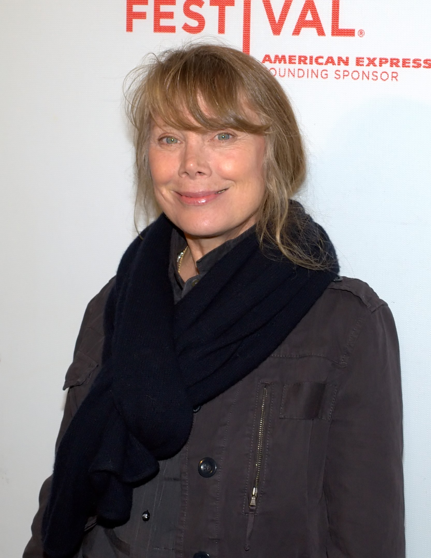 Sissy Spacek at Tribeca Film Festival 2010